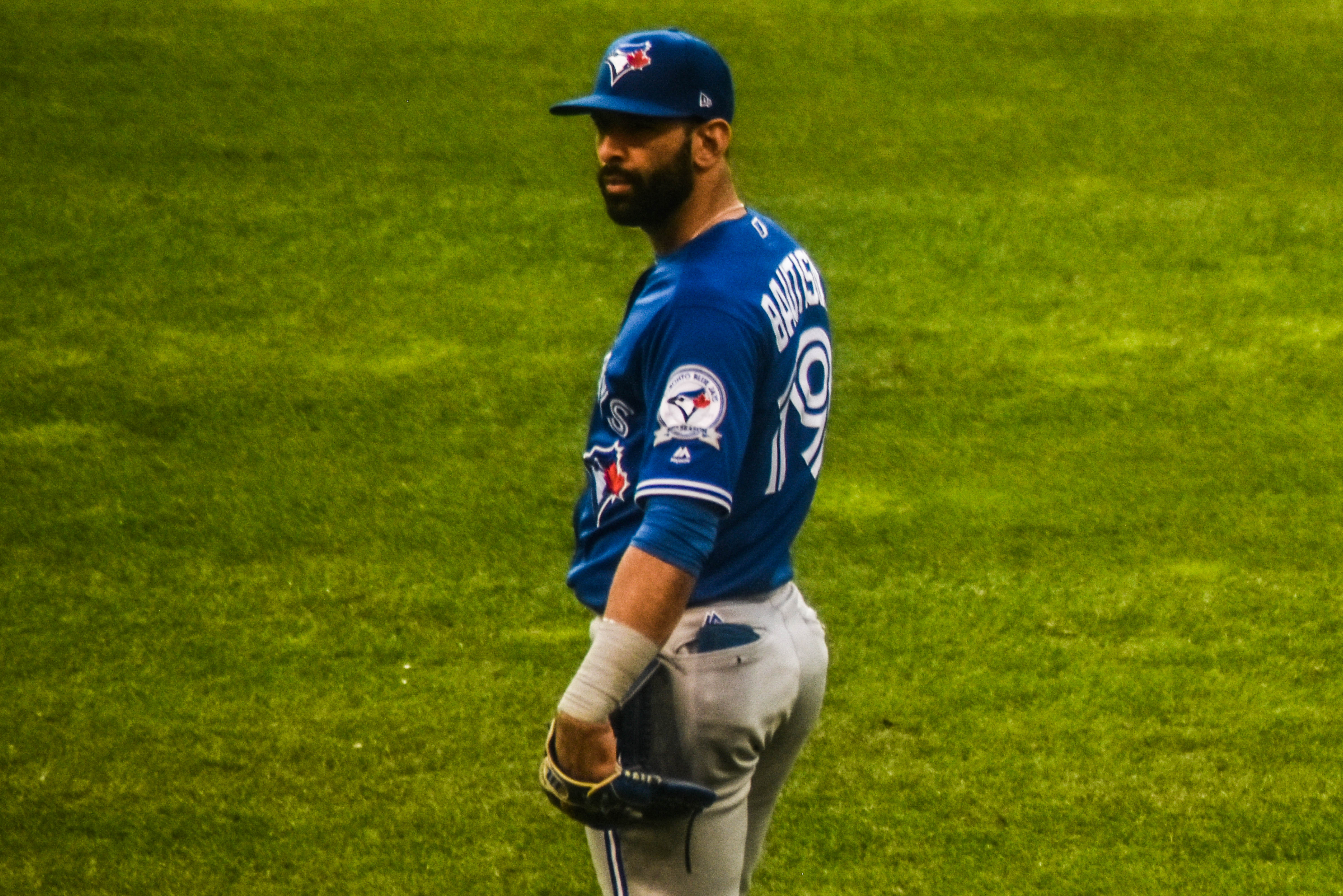 Cleveland Indians vs. Toronto Blue Jays